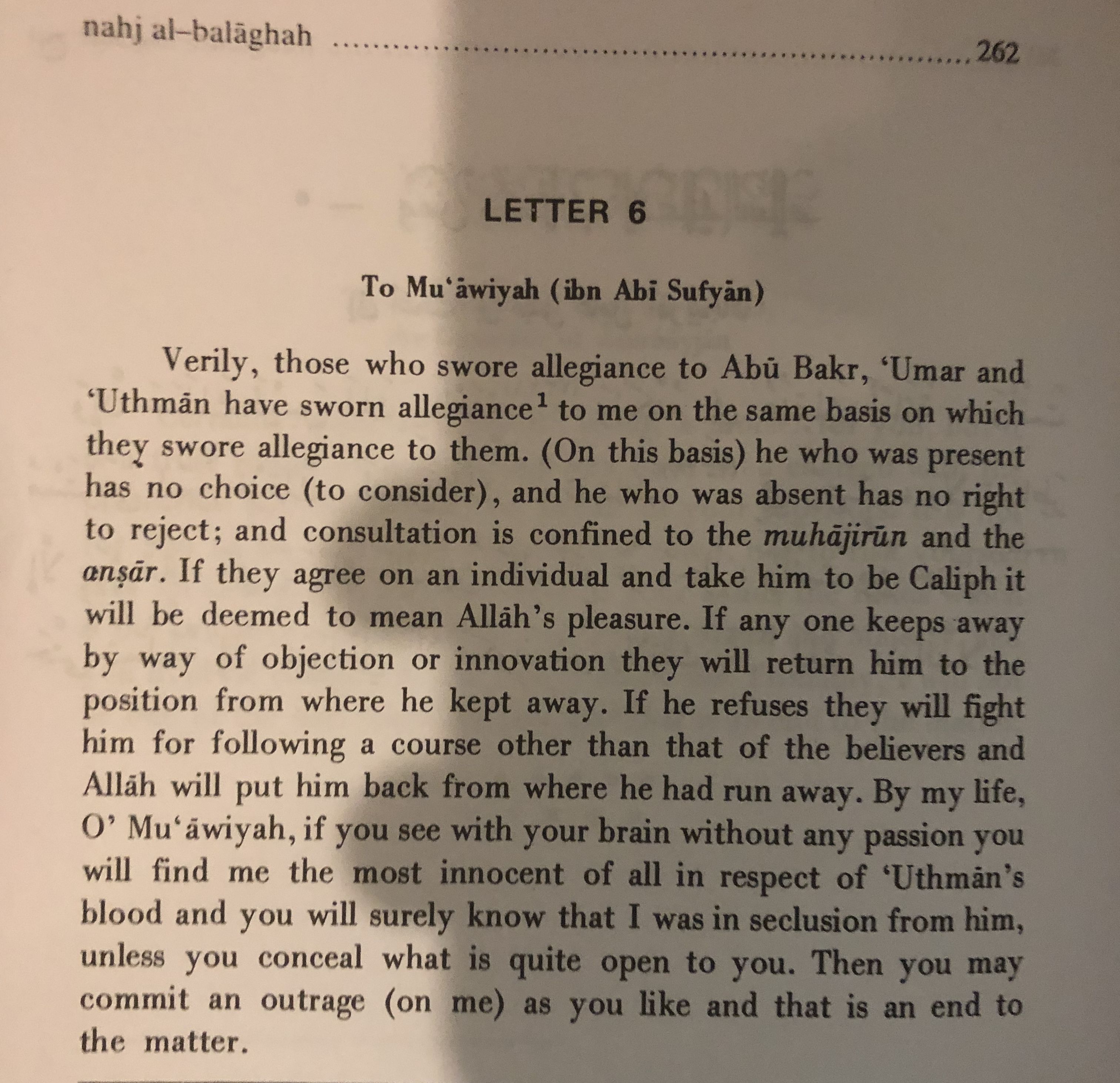 Translated and printed by Ansariyan publications in Qom, Iran.